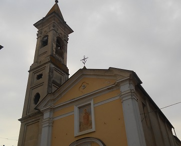 San Rocco Church